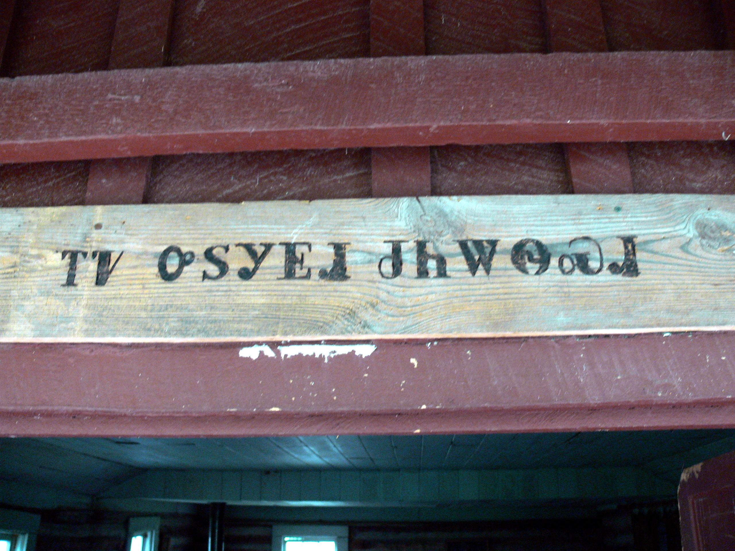 Cherokee Heritage Center ( Tahlequah / Oklahoma ). Adams Corner village: Village church - Cherokee inscription above the entrance.